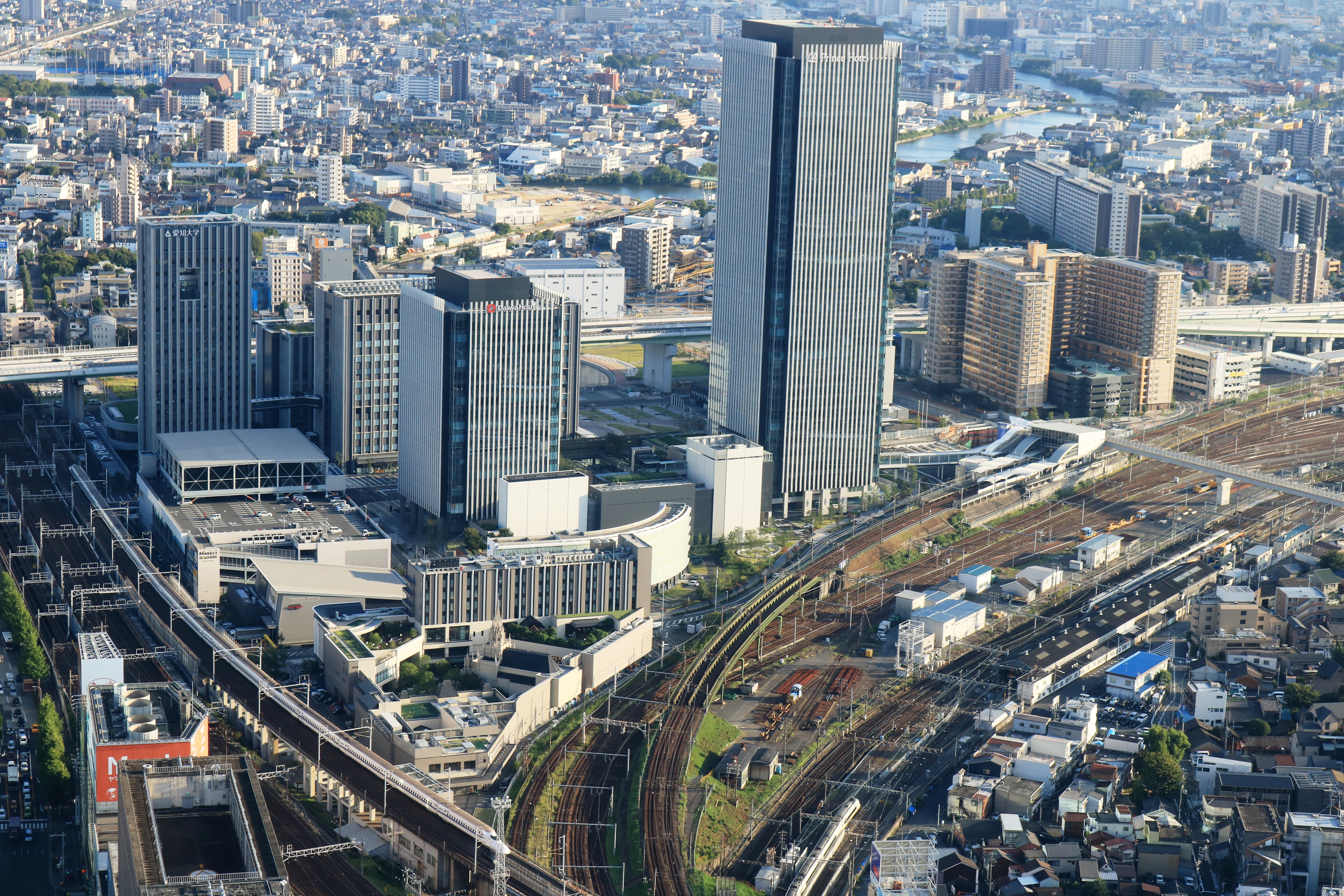 Global Gate seen from Midland Square in Sasashima-raibu24, Nakakura-ku, Nagoya, Aichi prefecture, Japan.